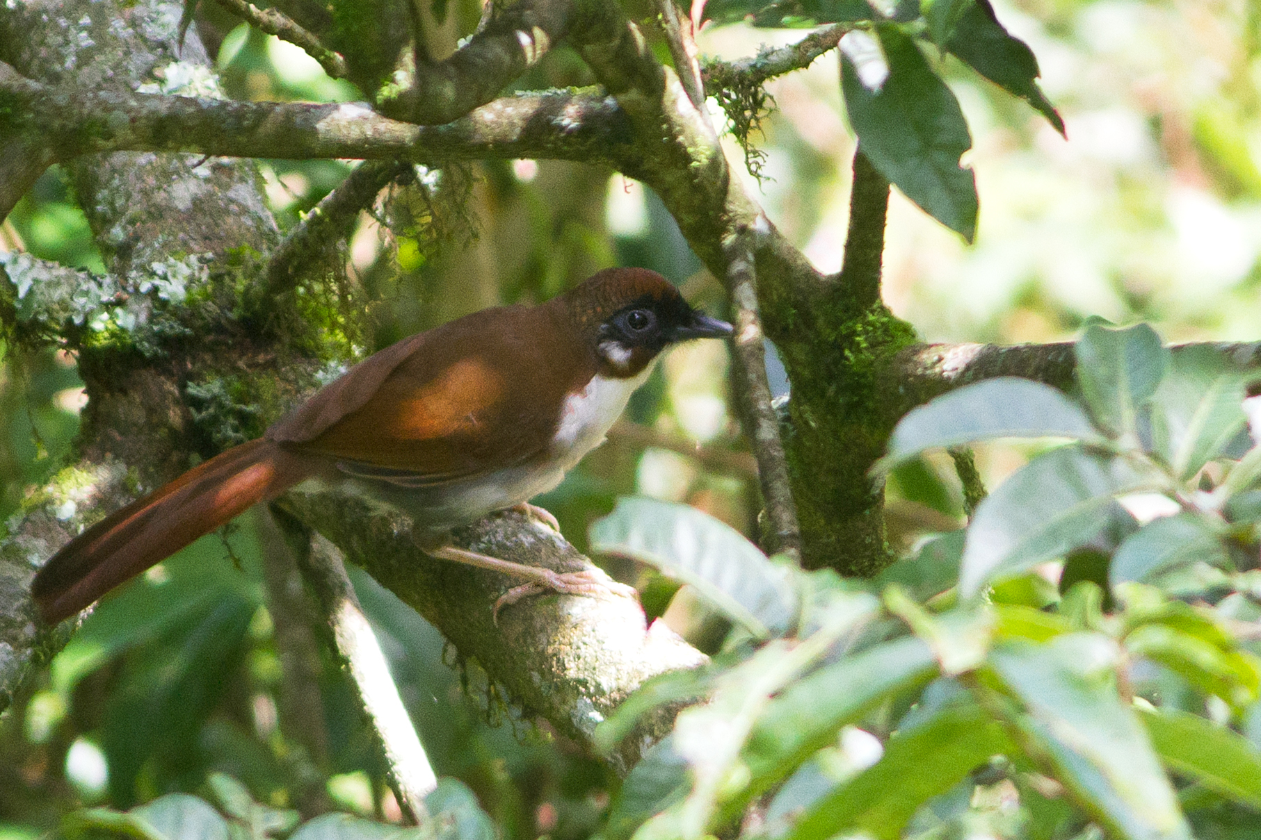 The species Grey-sided Laughingthrush had been photographed from Pendam village in East district of the state of Sikkim in India on 05.07.2018 during birding.